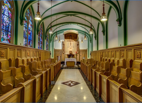 FenwickC